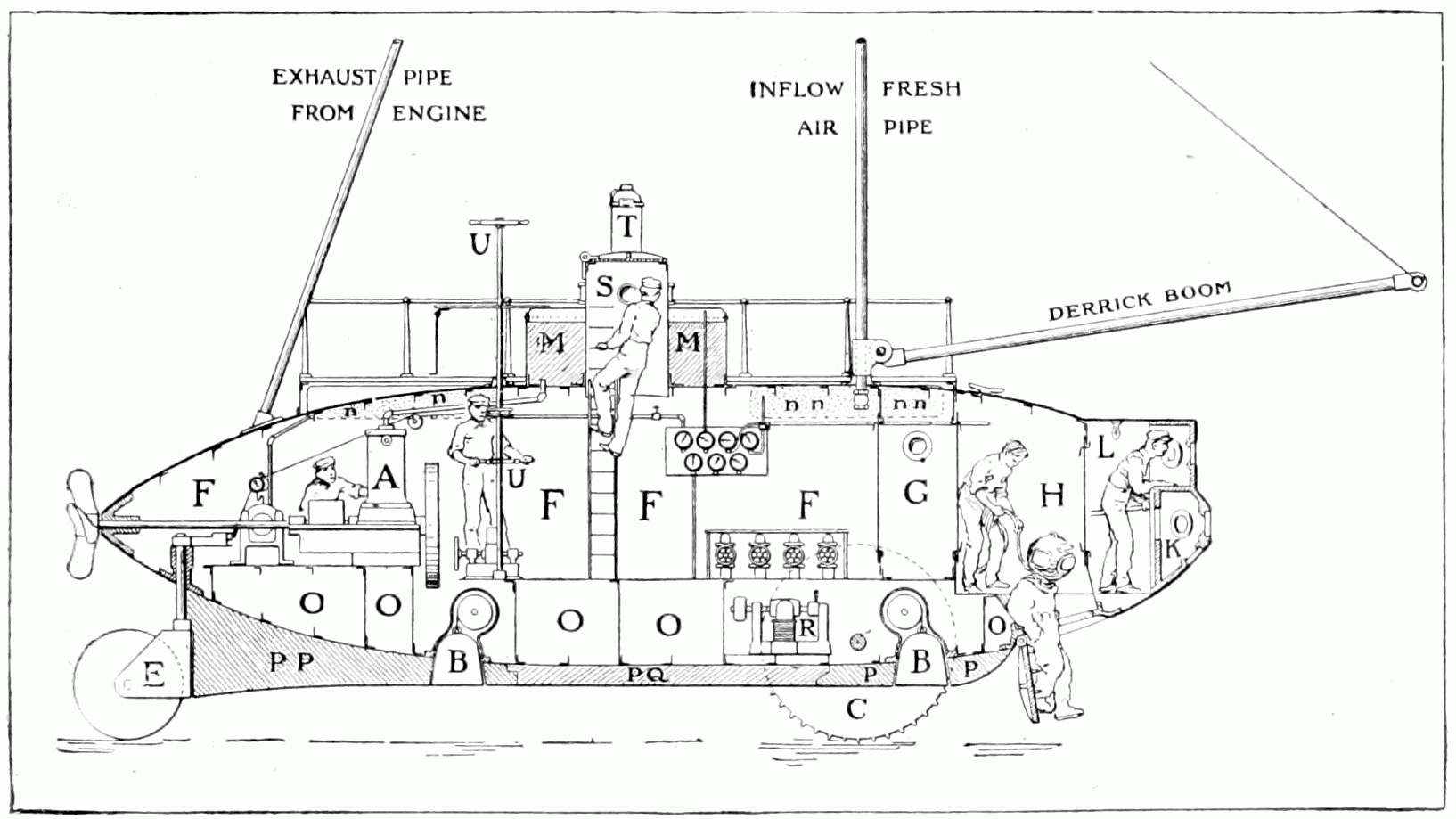 Longitudonal section of the submarine Argonaut